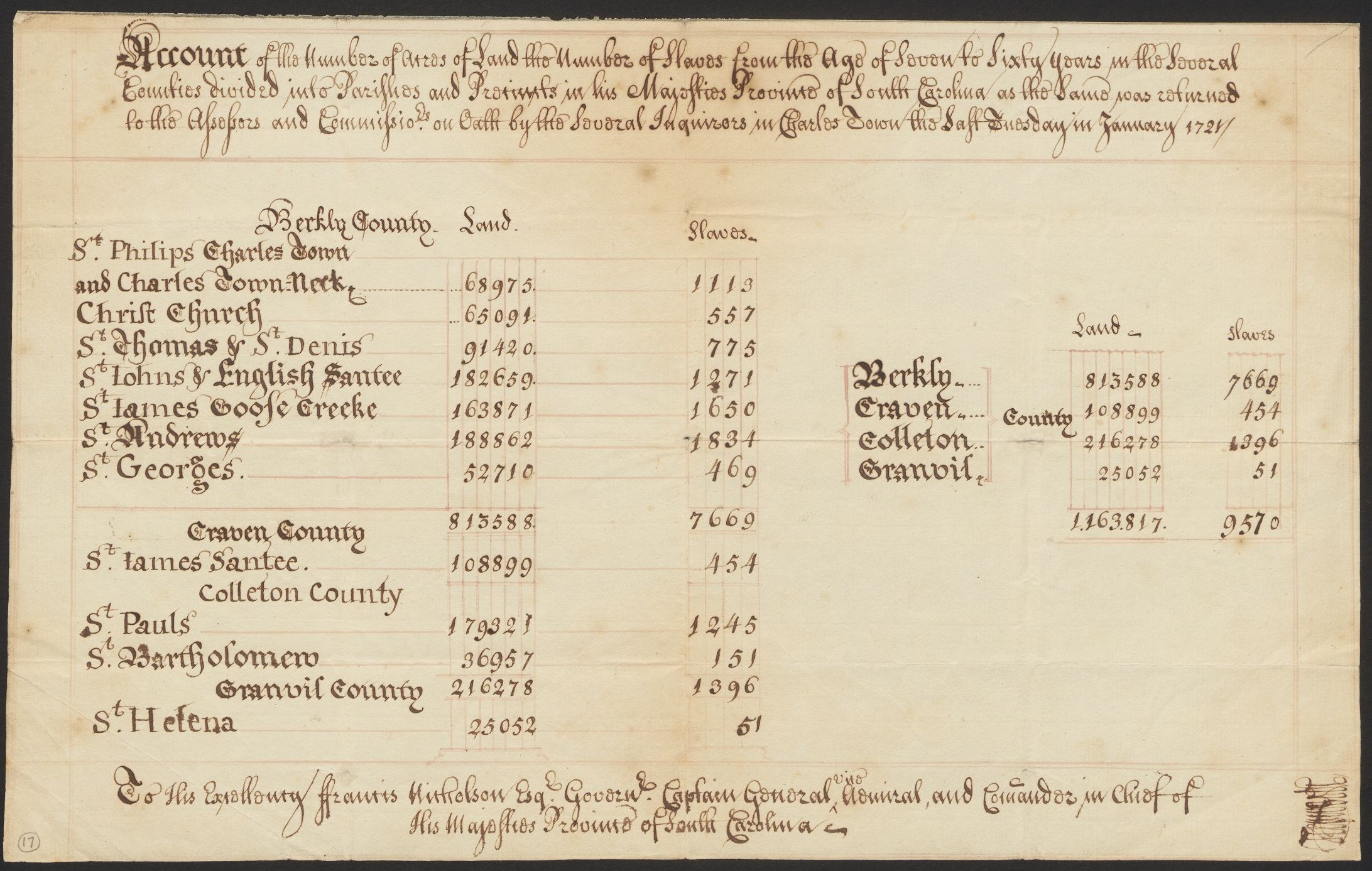 Census: "Account of the number of acres of land the number of slaves from the age of seven to sixty years in the several counties divided into parishes and precincts in his Majesties Province of South Carolina", January 1721. NS Am 1455 (17), Houghton Library], Harvard University